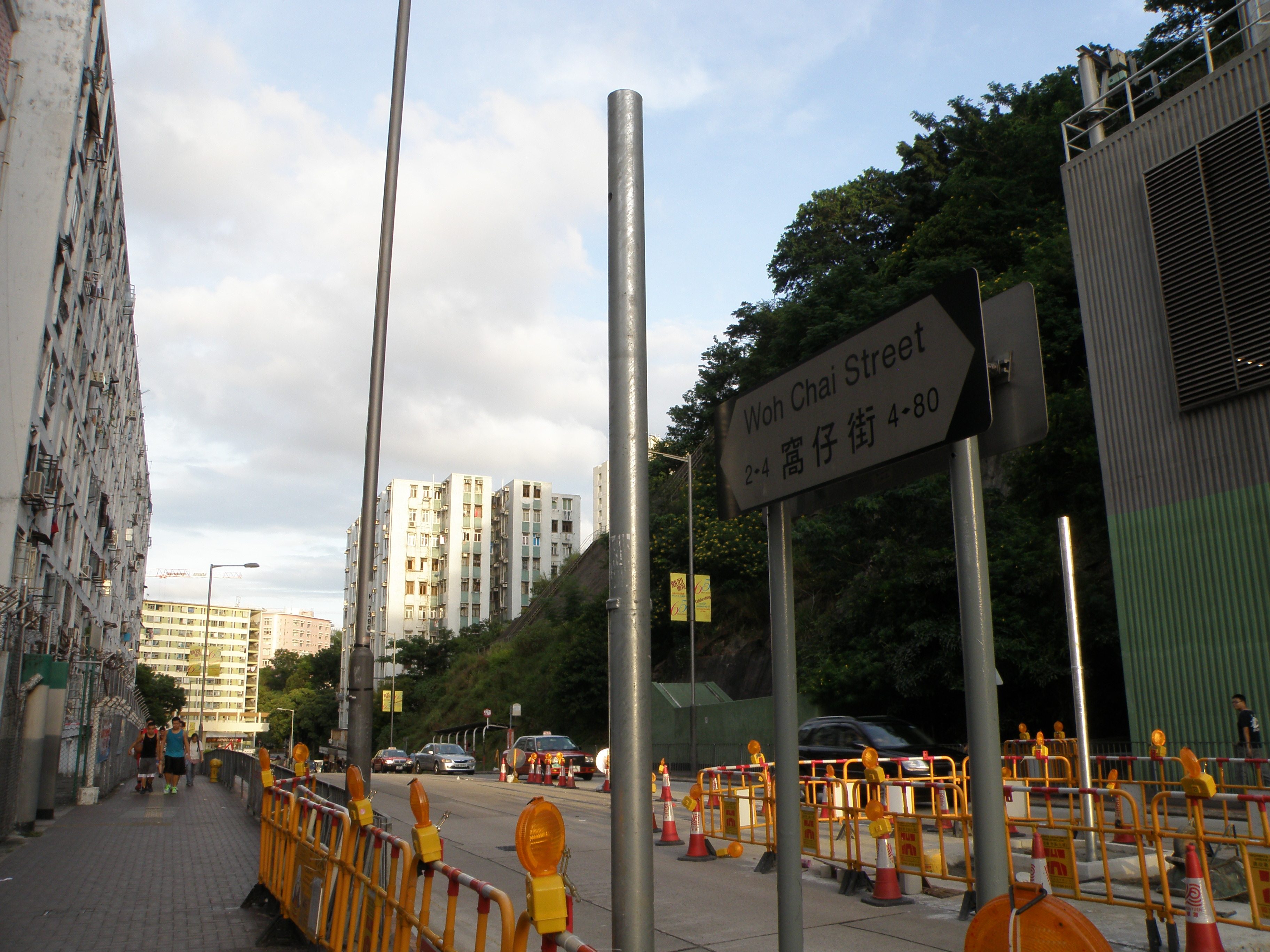 Woh Chai Street in Shep Kip Mei, Hong Kong.